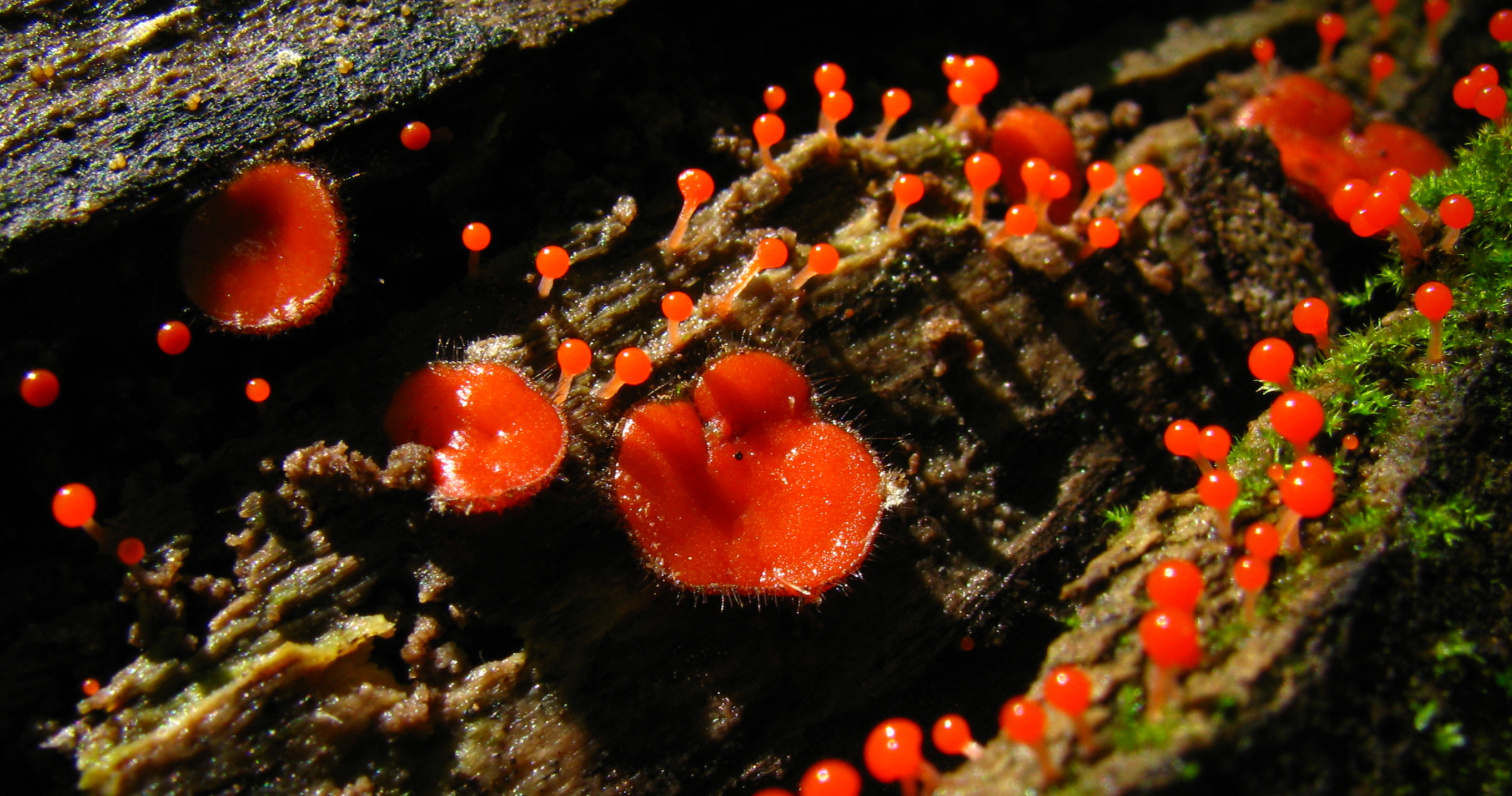 The cup fungus Scutellinia scutellata (L.) Lambotte. Photographed in Strouds Run State Park, Athens, Ohio, USA.